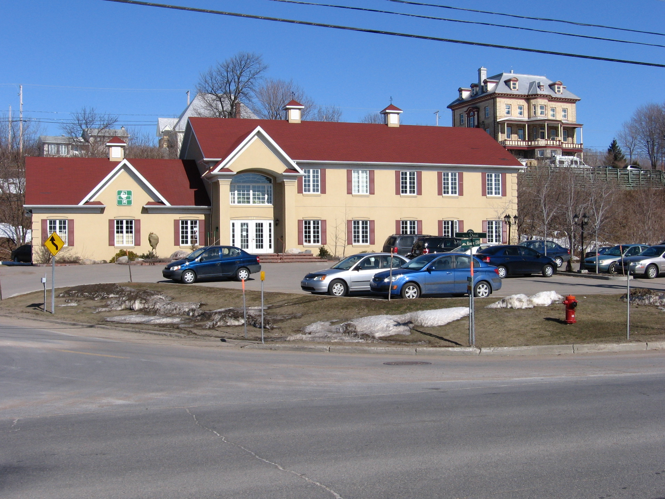 Central Neuville